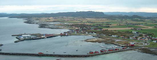 Uthaug harbour and village in Ørland municipality, Sør-Trøndelag, Norway. July 2004.